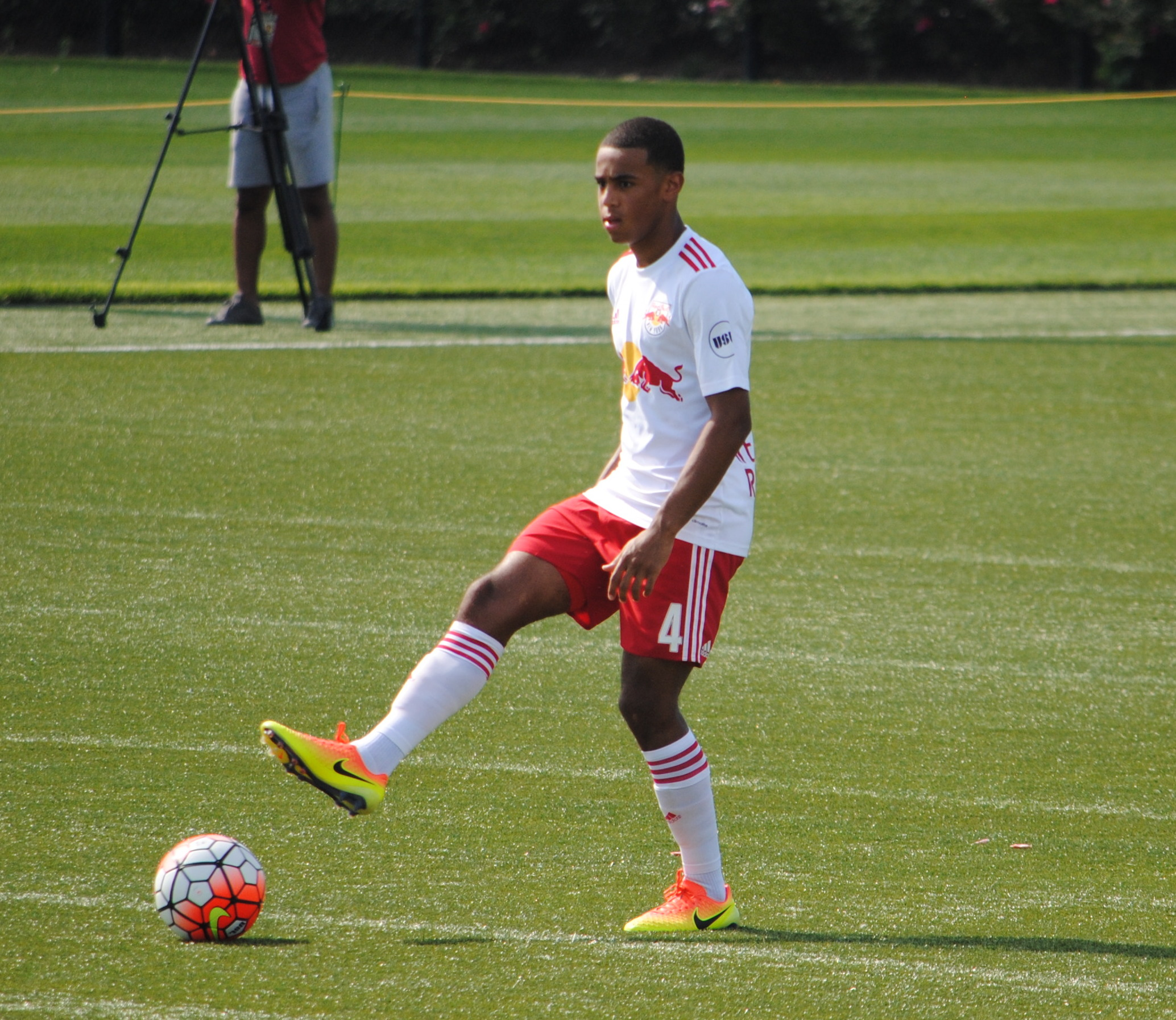 Tyler Adams